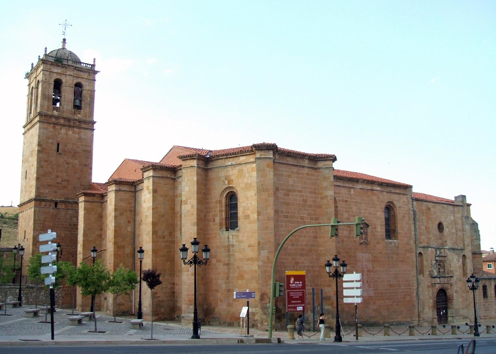 Concatedral de San Pedro, Soria (España)